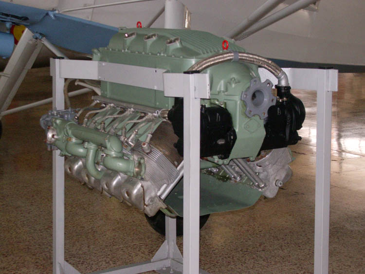 Photograph taken in "Museo del Aire", Spain. I am the author of this picture, and I'd desire everybody could see it freely in Wikipedia.